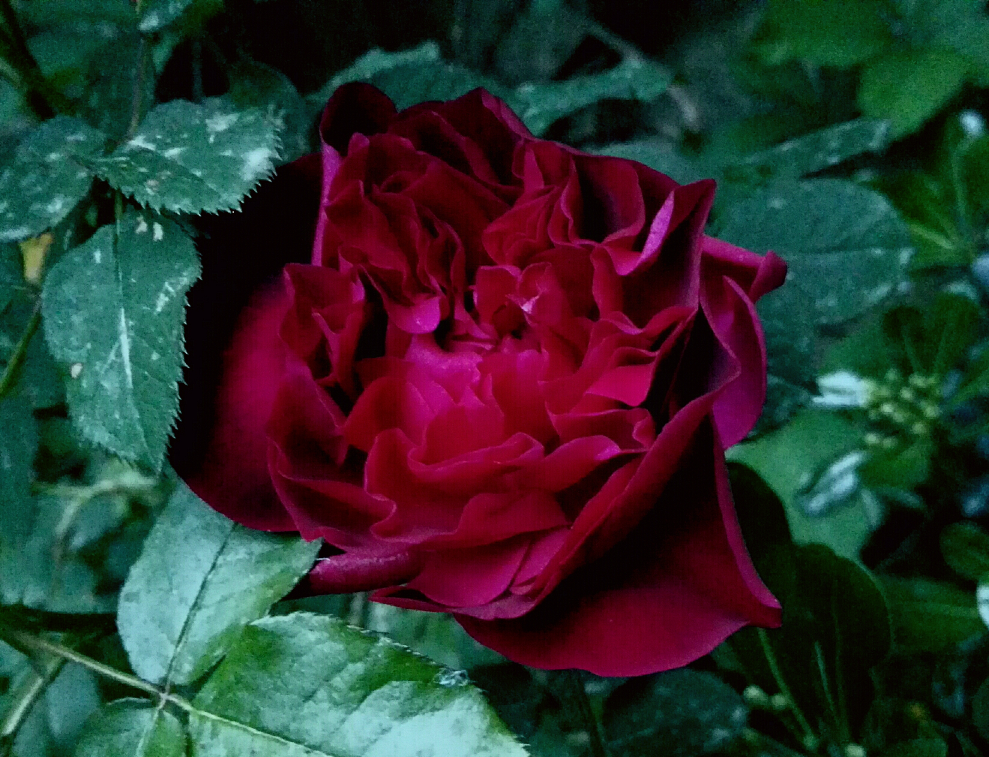 English rose Munstead Wood, Austin, 2007